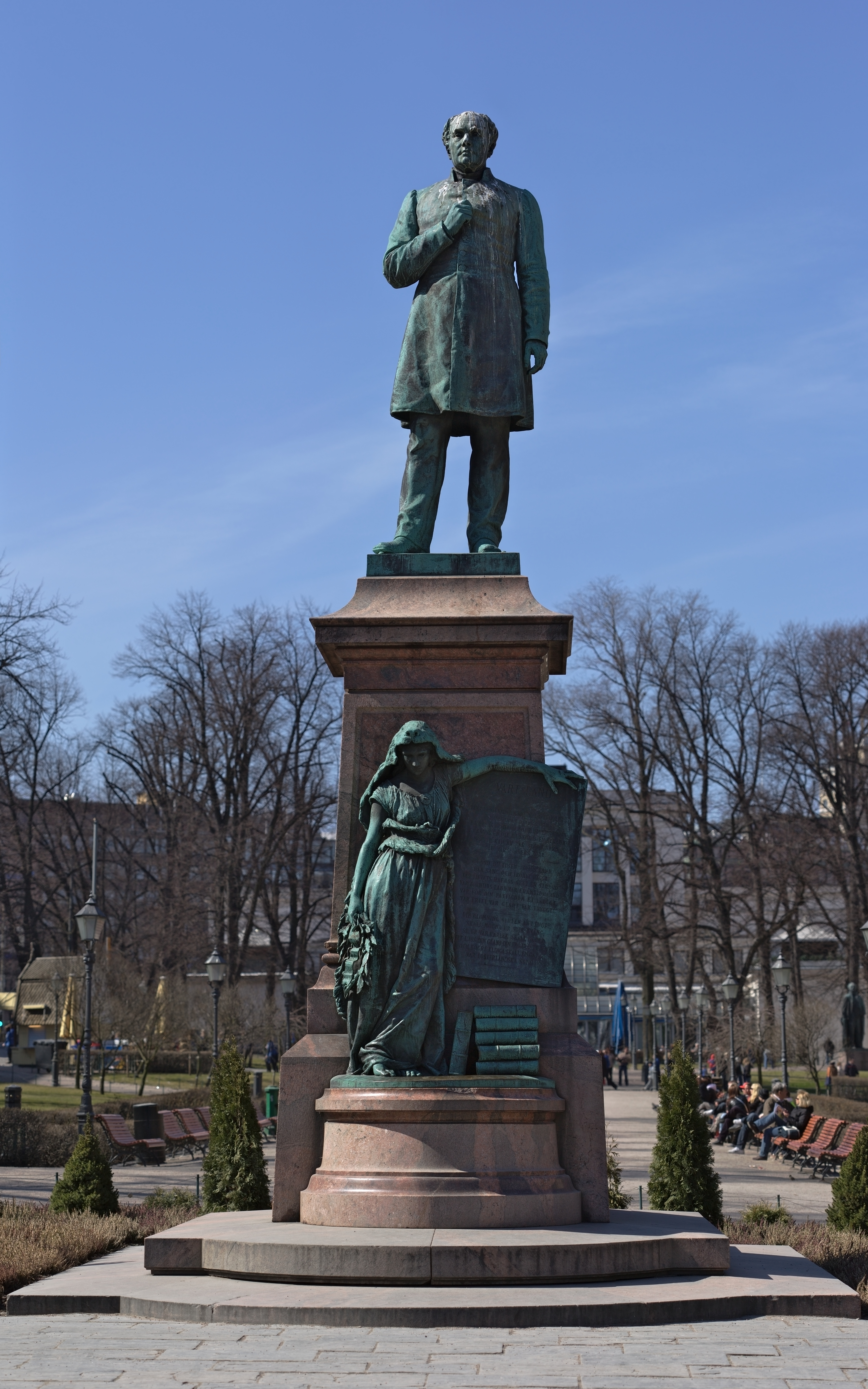 Johan Ludvig Runeberg statue located at the Esplanadi park.